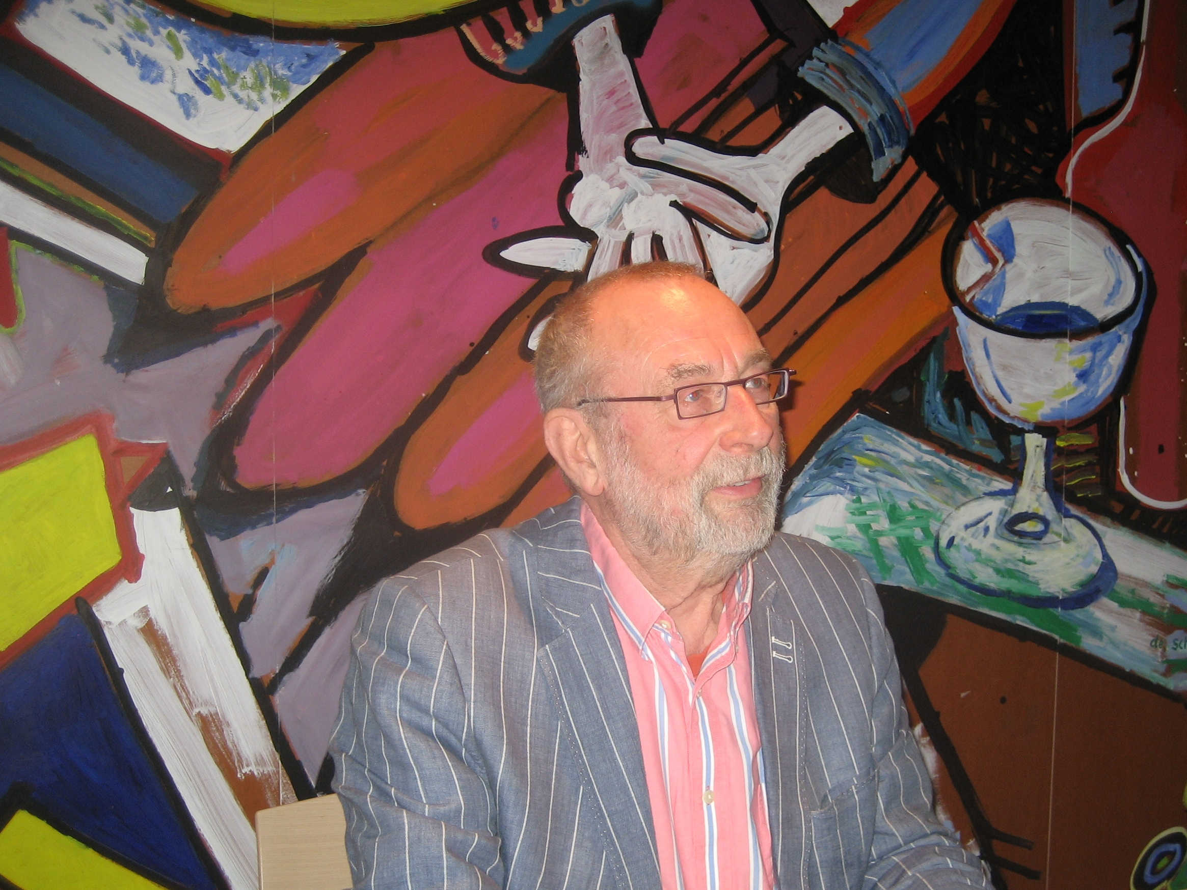 Dutch writer Hans Dorrestijn in Dutch Literature Museum in The Hague, Jan. 2016. Dorrestijn is sitting in front of a wall painting by Lucebert